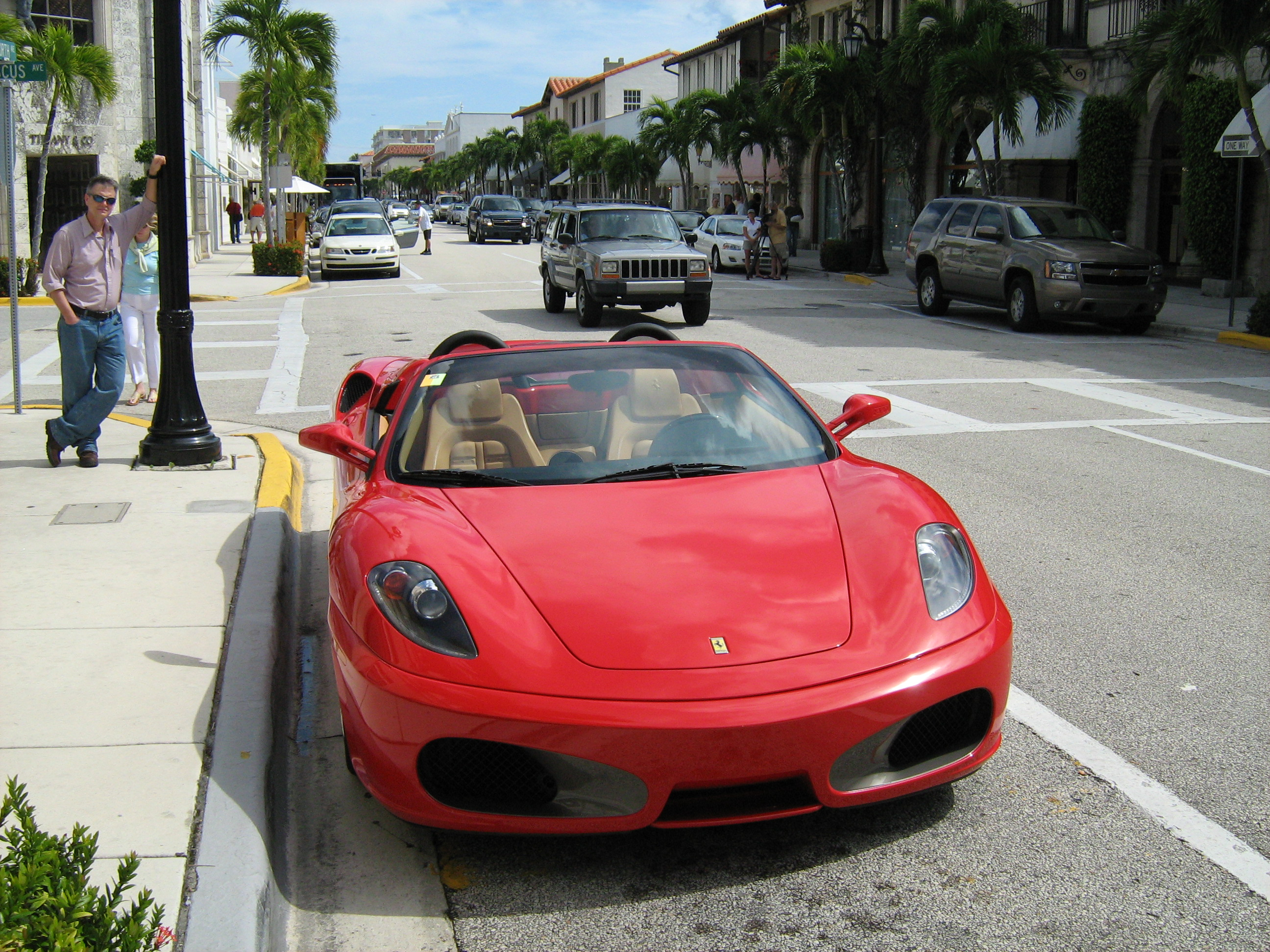 Worth Avenue in Palm Beach (Florida 33480) looking east. Note that Hibiscus Avenue is to the left and the "Tiffany & Company" store is located on the corner (its address is 259 Worth Avenue). A red Ferrari is parked on the street in front of the "Coco Chanel" store (located at 301 Worth Avenue)